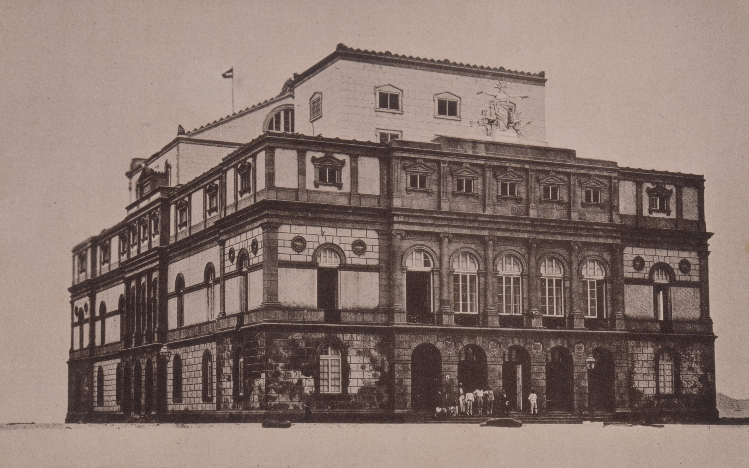 Old Tirso de Molina Theater (today Pérez Galdós Theater). Original design by Jareño, prior to the fire that destroyed it in 1928. Las Palmas de Gran Canaria (Gran Canaria). Canary Islands, Spain.